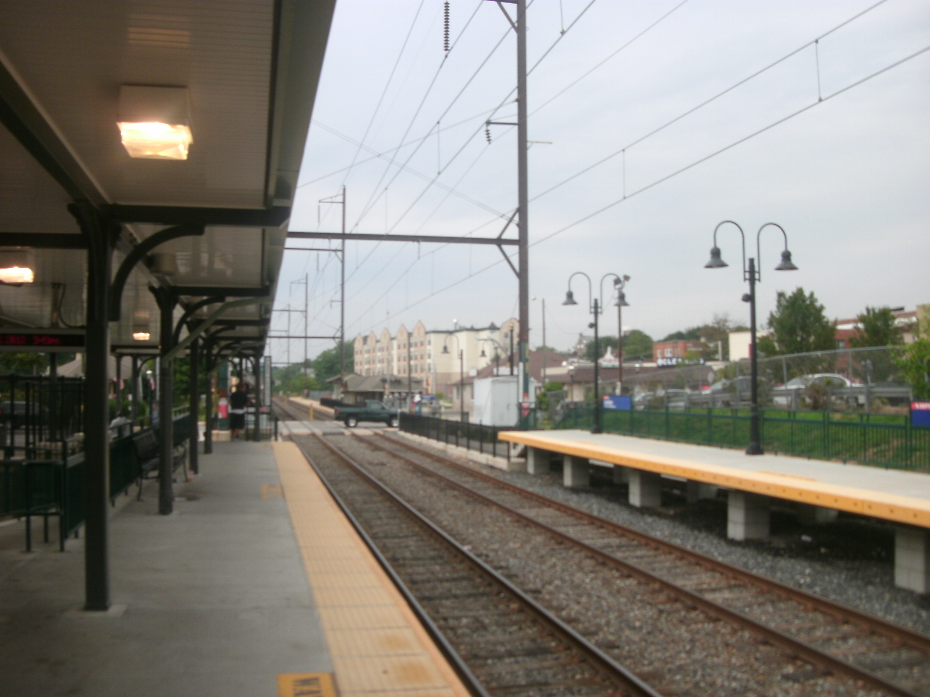 Ambler Station SEPTA facing southbound towards the former depot in Ambler, Pennsylvania.